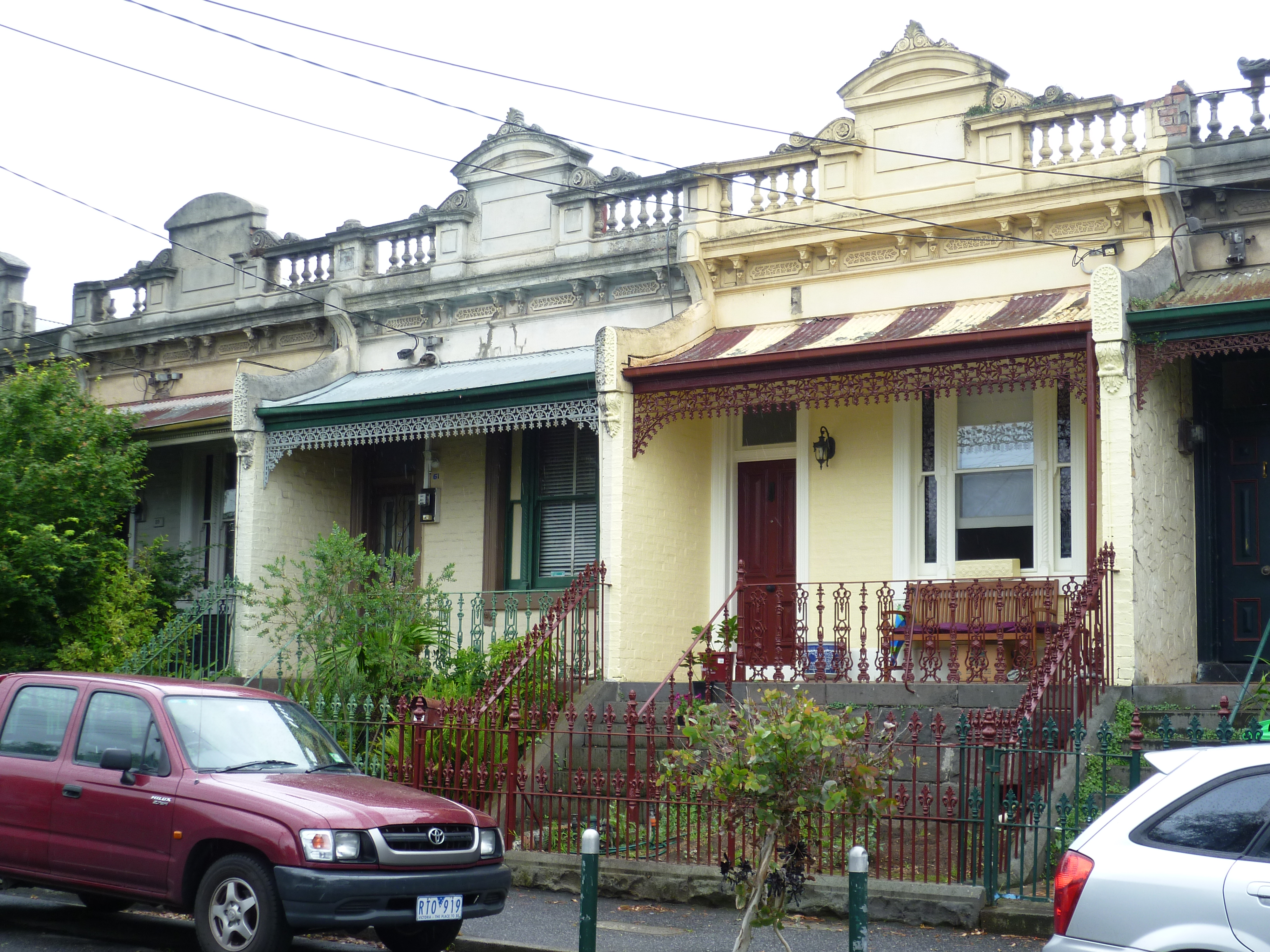 Houses in Flemington, Victoria, Australia.